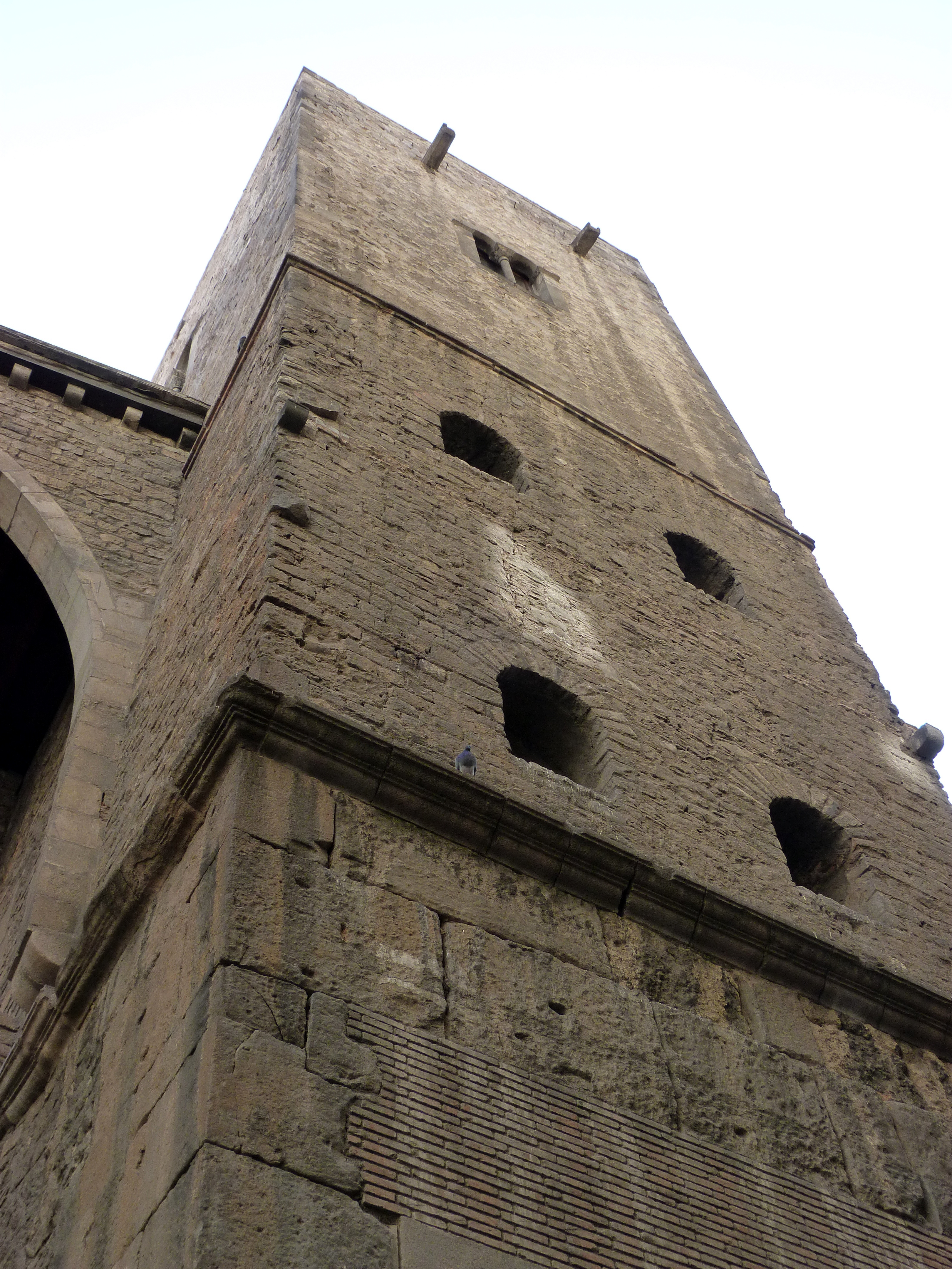 Barcelona is just simpley stunning !